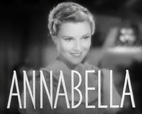 Cropped screenshot of Annabella from the trailer for the film Bridal Suite.